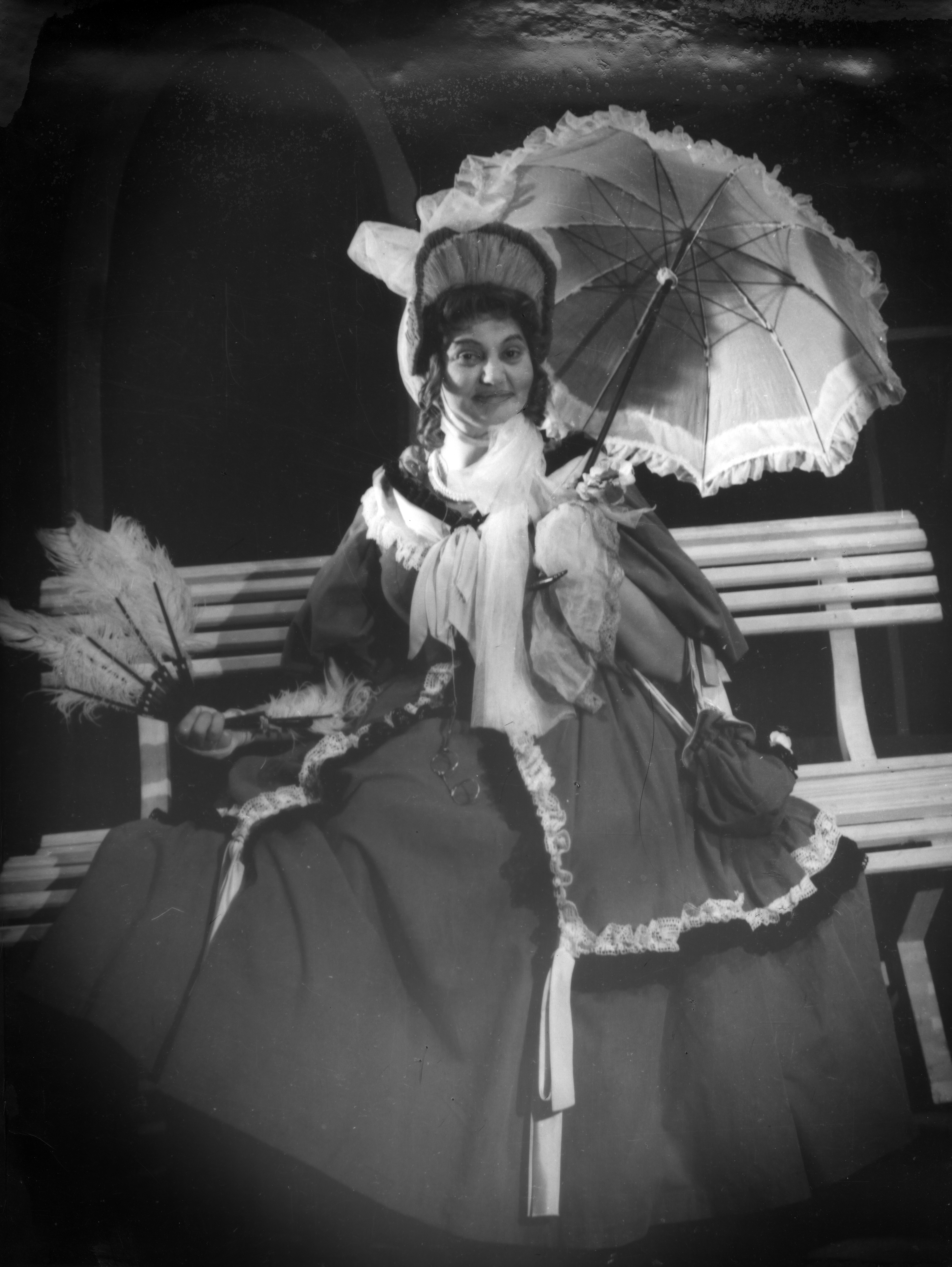 Ljubica Ravasi, as Fema in costume designed by Stana Jatić, in performance "Pokondirena tikva" by J. S. Popović, directed by Borivoje Hanauska, Novi Sad, Serbian National Theatre, 1966. Srpski (latinica): Ljubica Ravasi kao Fema, u kostimu Stane Jatić, ulozi Feme, Pokondirena tikva J. S. Popovića, u režiji Borivoja Hanauske, Novi Sad, Srpsko narodno pozorište, 1966. Српски (ћирилица): Љубица Раваси као Фема у костиму Стане Јатић, Покондирена тиква Ј. С. Поповића, у режији Боривоја Ханауске, Нови Сад, Српско народно позориште, 1966.